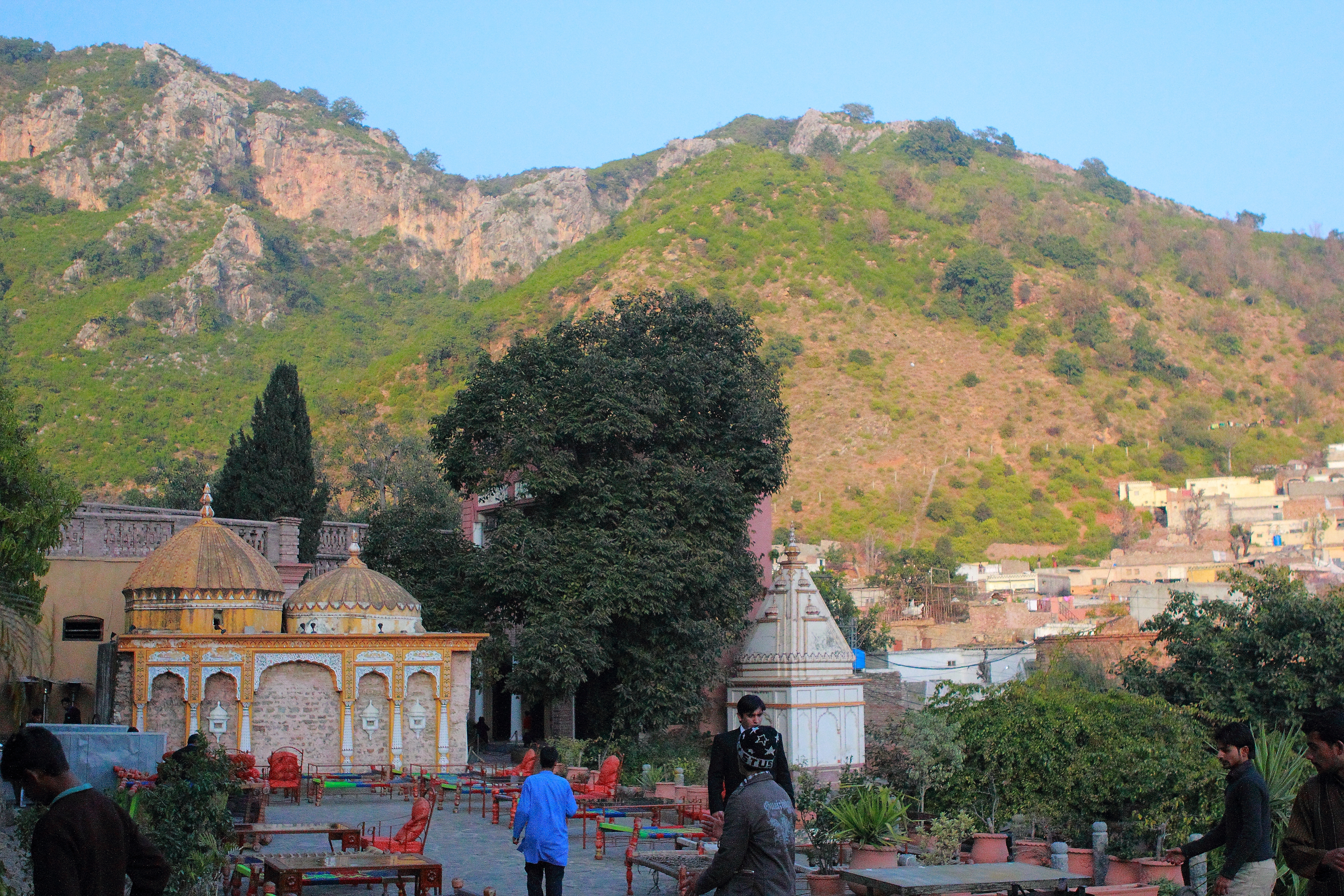 Saidpur Village, restaurant in the foreground This is a photo of a monument in Pakistan identified as the ICT-3